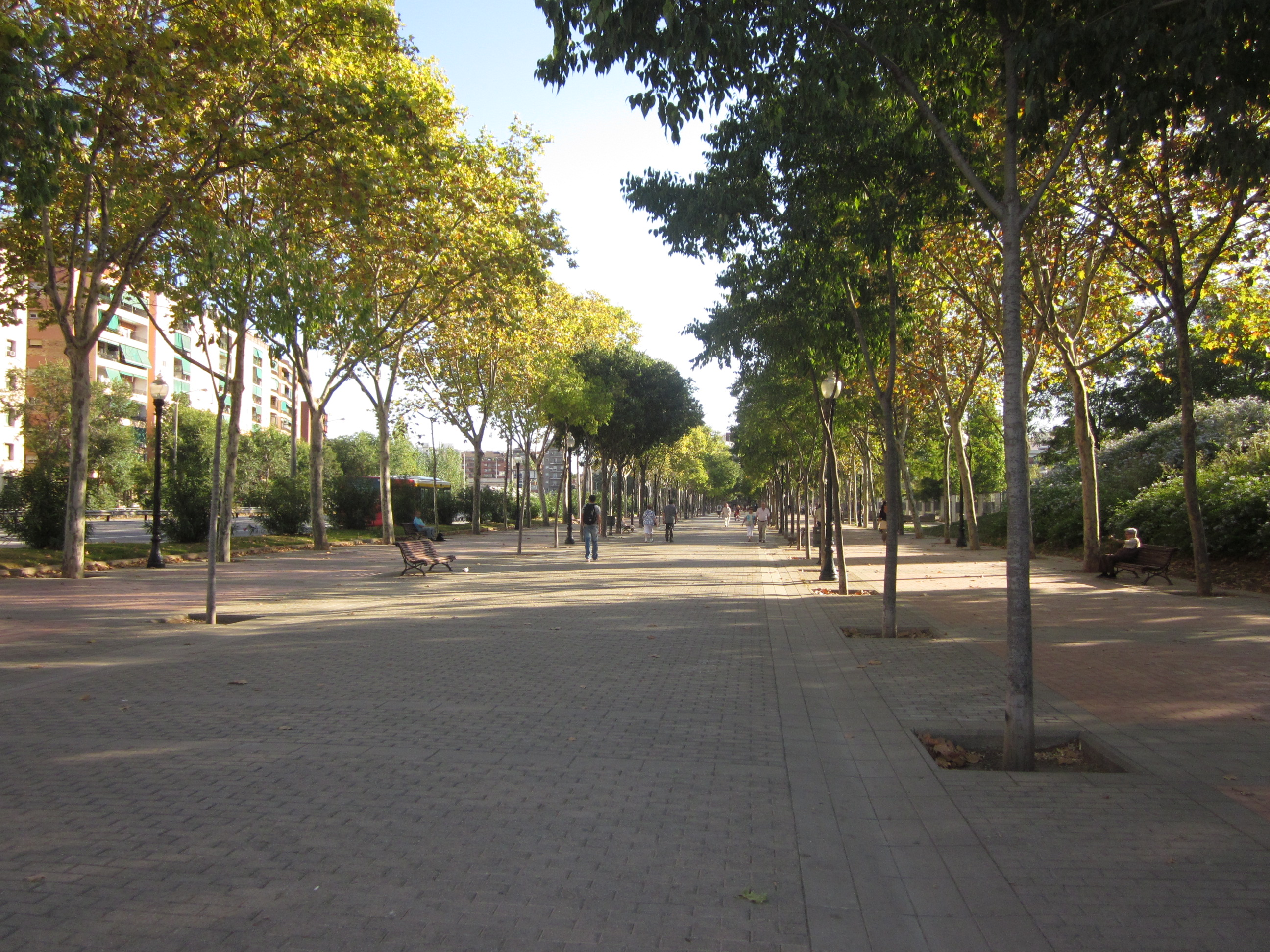 Can Dragó park, Barcelona. Avinguda Meridiana side.